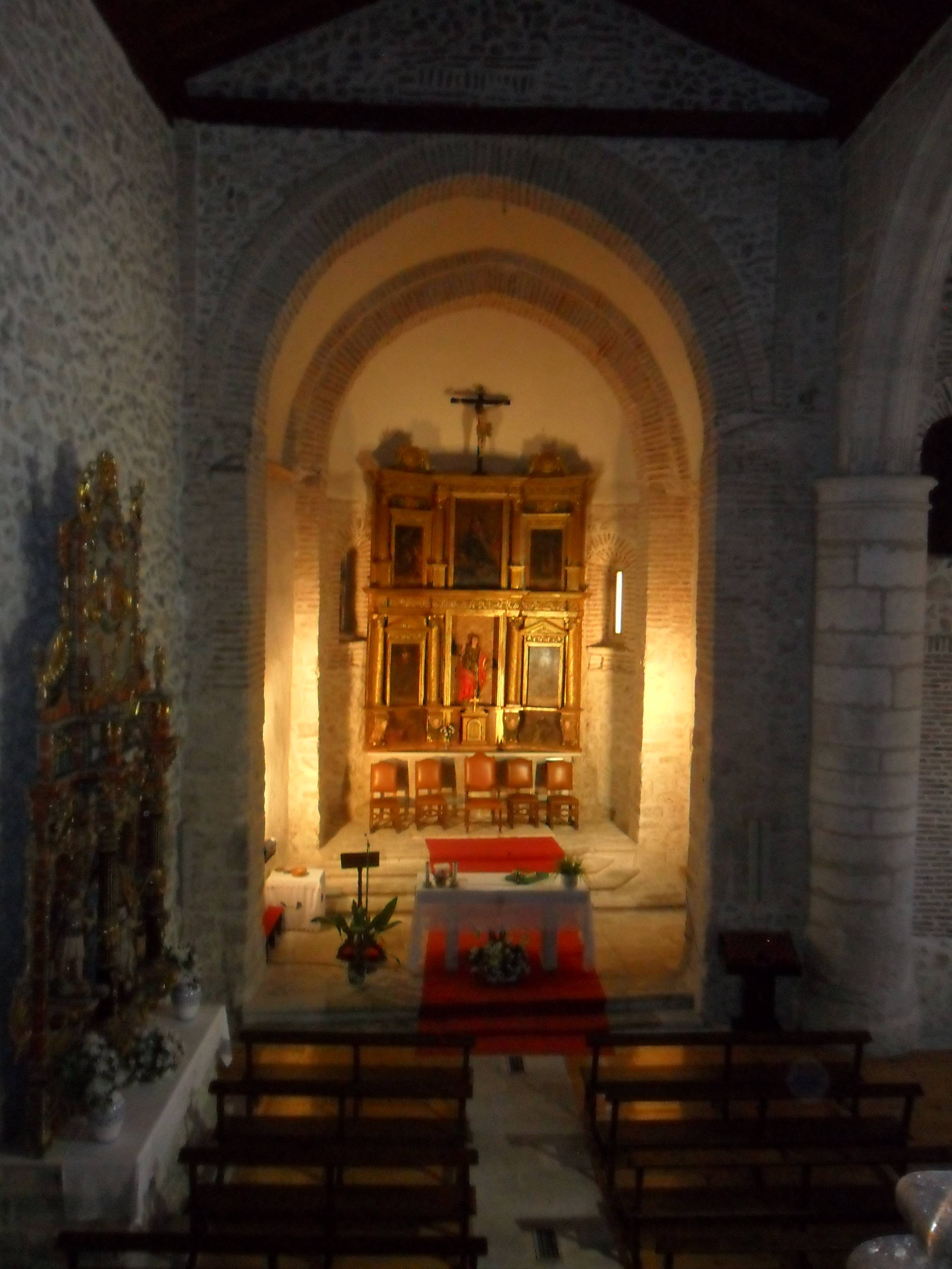 General view. Santibáñez de Valcorba, Valladolid.Spain